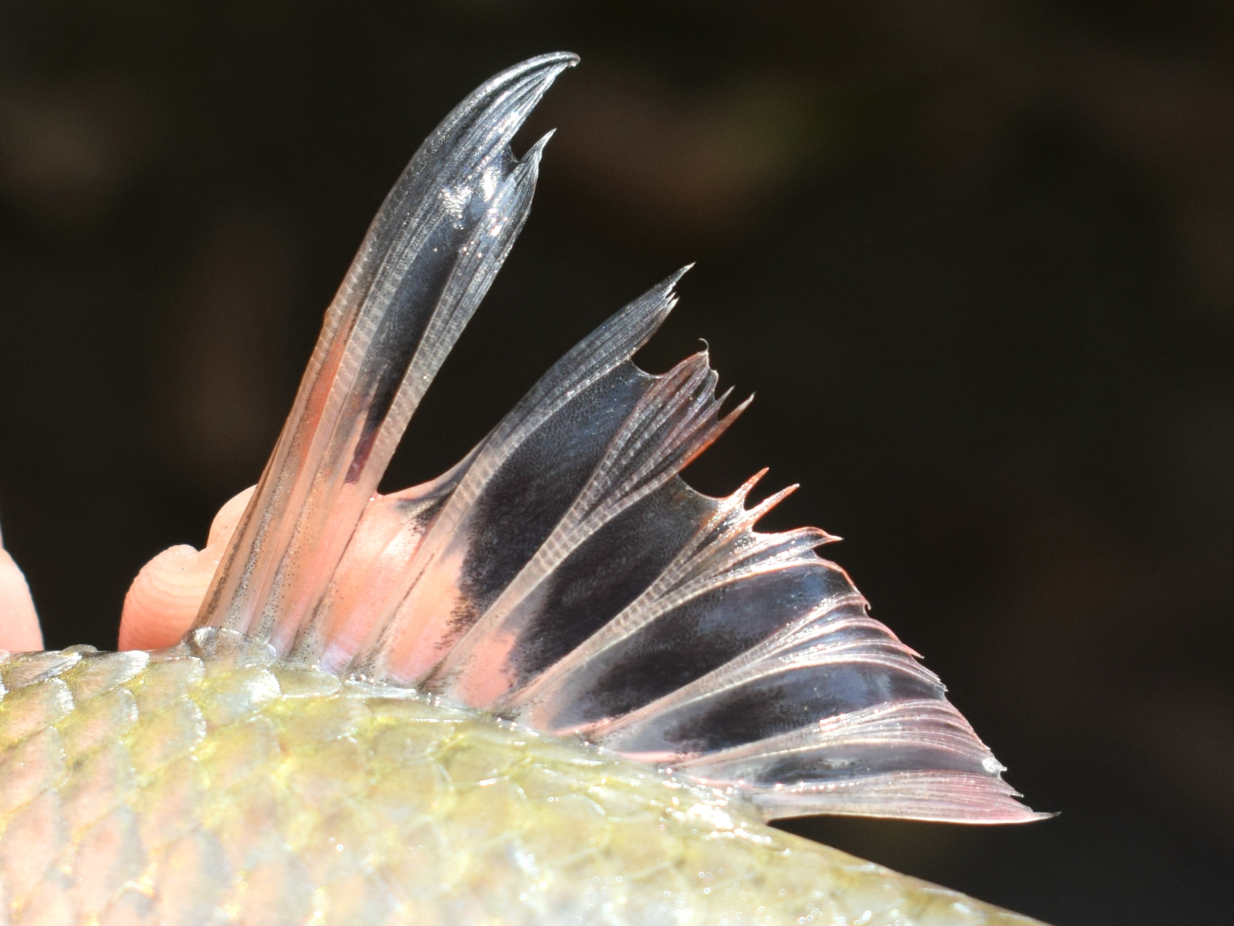 Sucker barb Barbichthys laevis; dorsal fin, with 8 branched dorsal-rays. From North Musi Rawas (Muratara), South Sumatra, Indonesia.